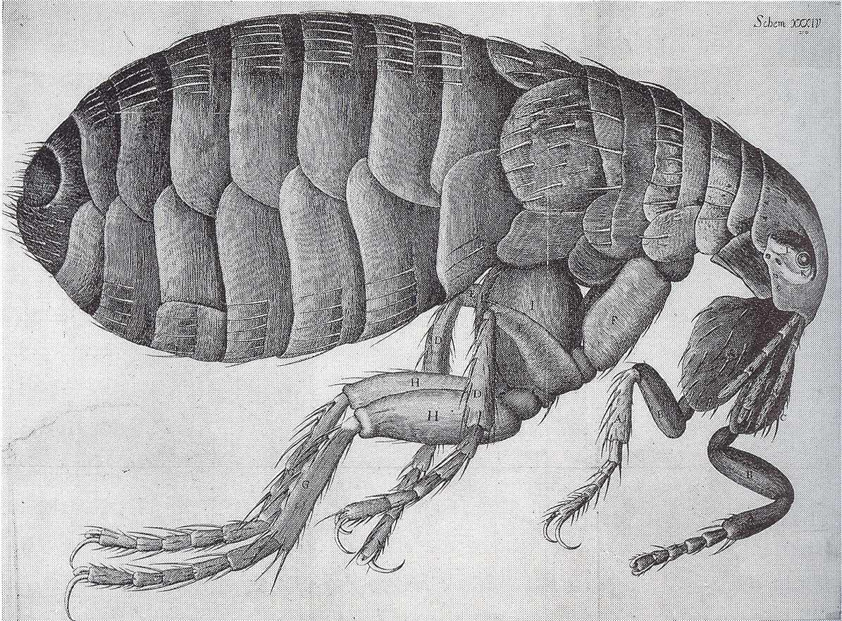 Engraving of a flea from Robert Hooke's 1665 Micrographia, funded by the Royal Society. Some of the illustrations were made by Christopher Wren. Originally, this illustration was a gatefold. (Conversion to JPG of Image:Flea-Hooke.gif)